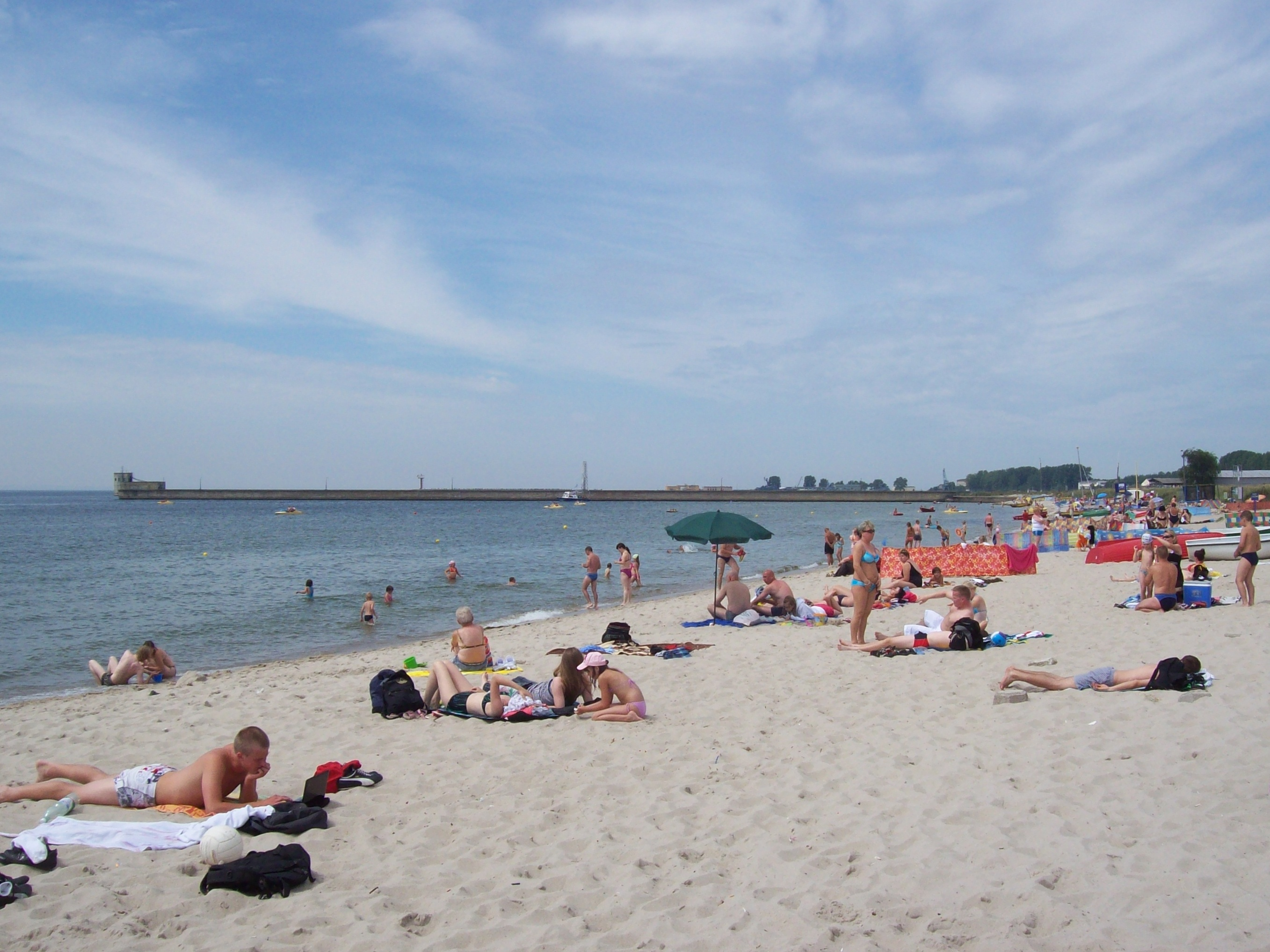 Hel (Poland) - the beach